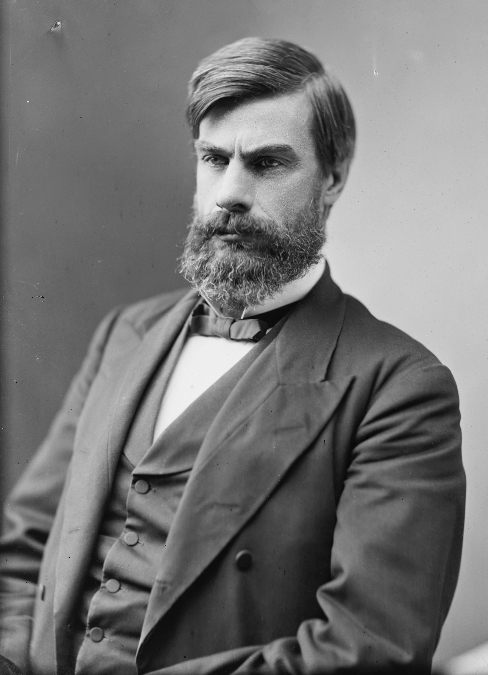 Mills Gardner. Library of Congress description: "Gardner, Hon. Mills of Ohio"